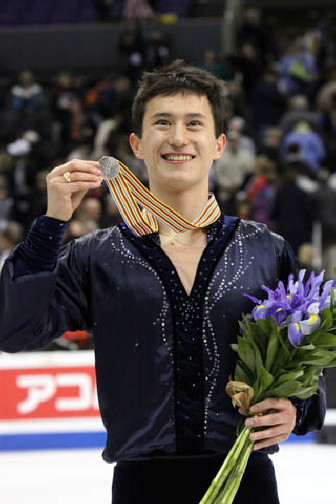 Patrick Chan (CAN) during the medals ceremony at the 2009 World Figure Skating Championships.